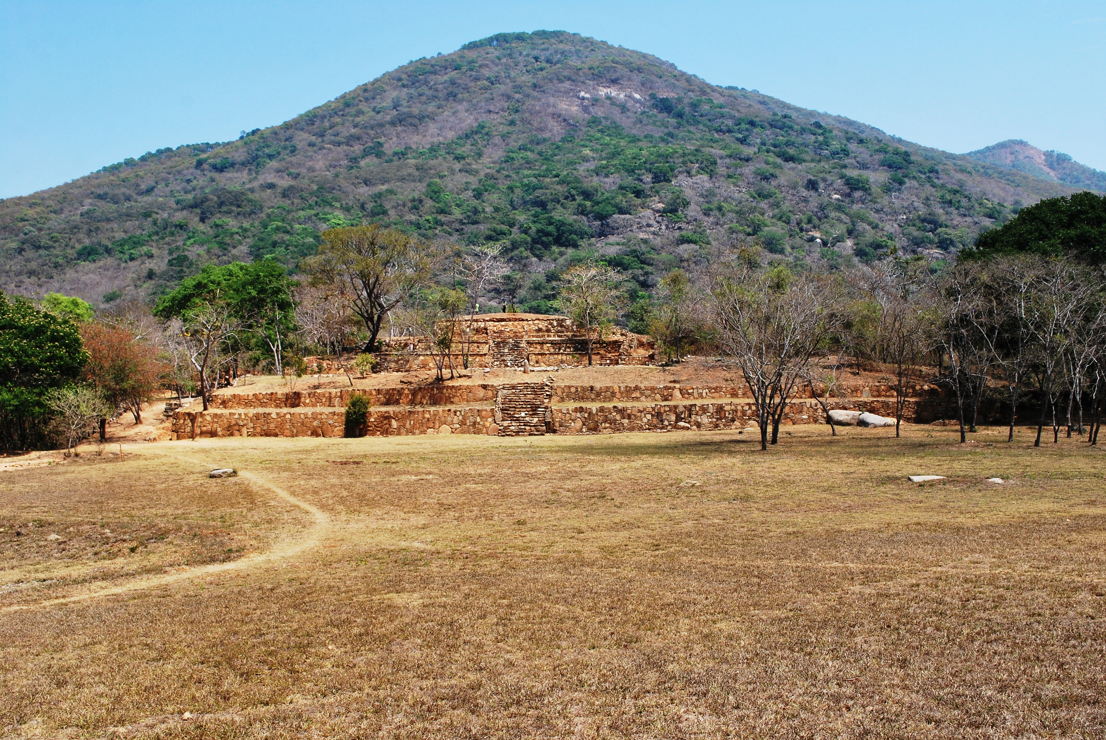 View of Palace and hill at Tehuacalco, Guerrero